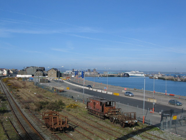 Old Harbour A view looking to the northeast from the Celtic Gateway bridge towards the Old Harbour and the Jonathan Swift fast ferry berthed at Salt Island.